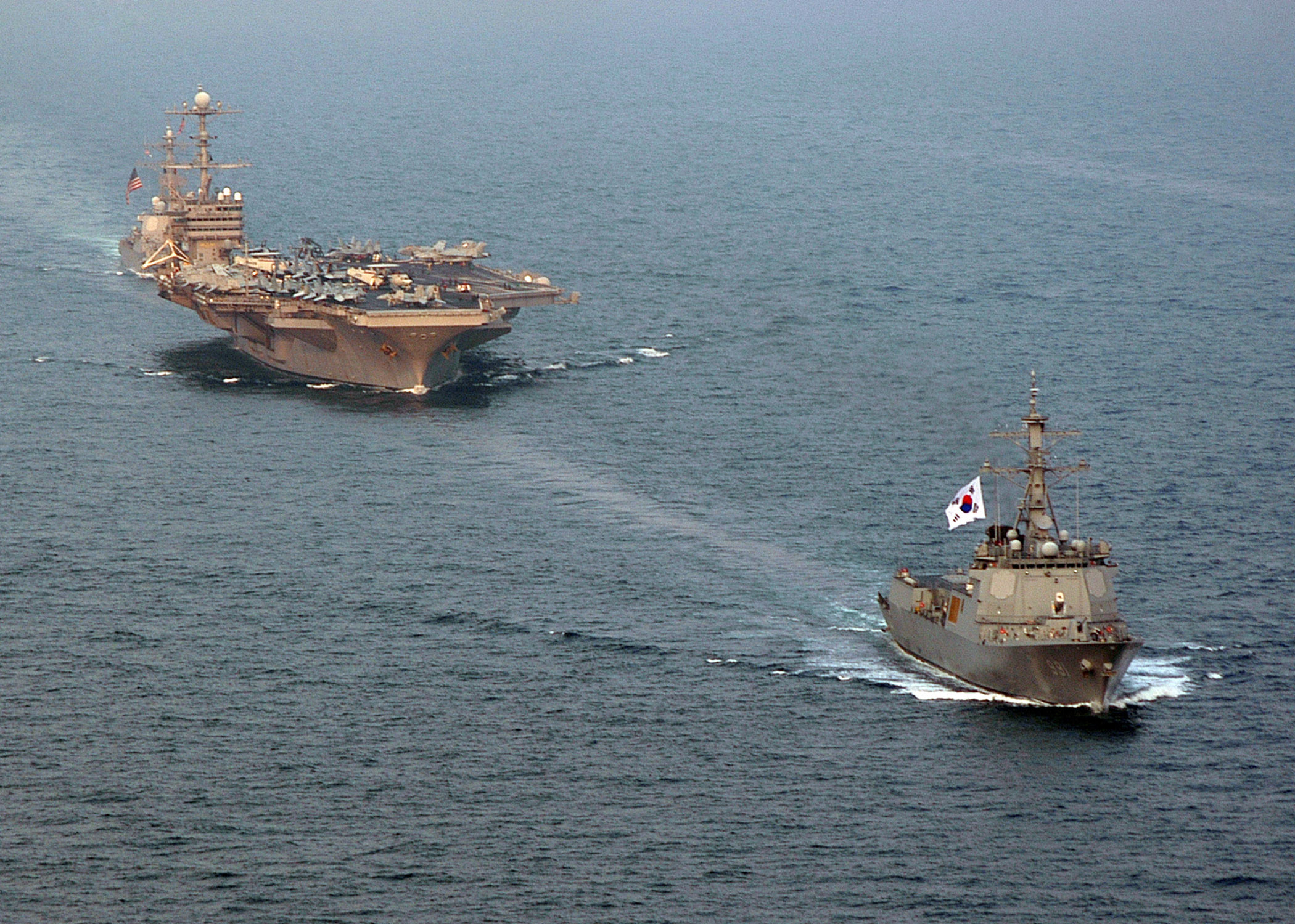 YELLOW SEA (Oct. 13, 2009) The aircraft carrier USS George Washington (CVN 73) and the Republic of Korea navy Aegis destroyer Sejong the Great (DDG KDX 991) are underway in the Yellow Sea during a bilateral exercise. George Washington, the Navy's only permanently forward deployed aircraft carrier, is underway supporting security and stability in the region. (U.S. Navy photo by Mass Communication Specialist 3rd Class Jeffrey Stewart/Released)